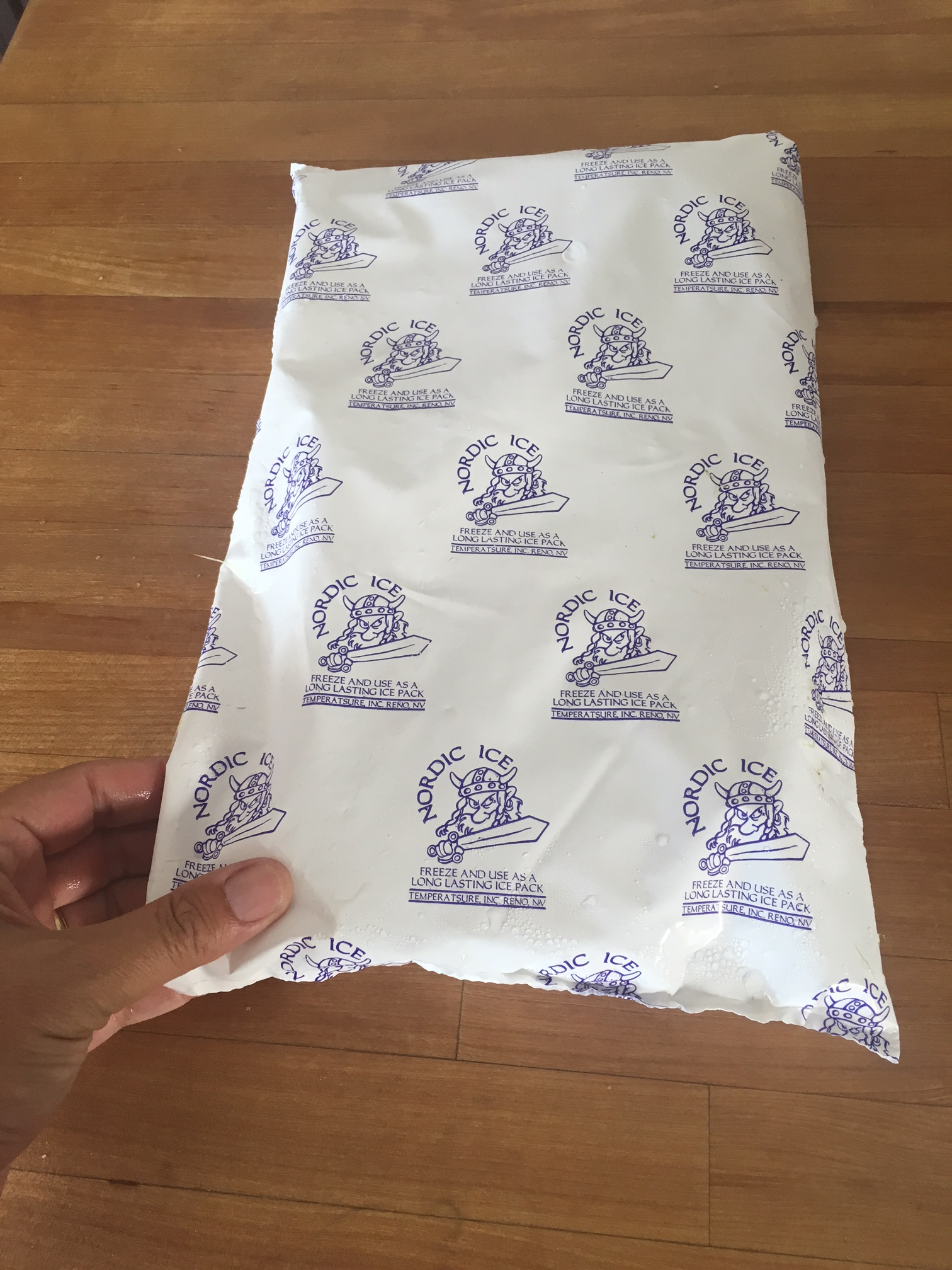 A gel pack that is shipped with meal kits